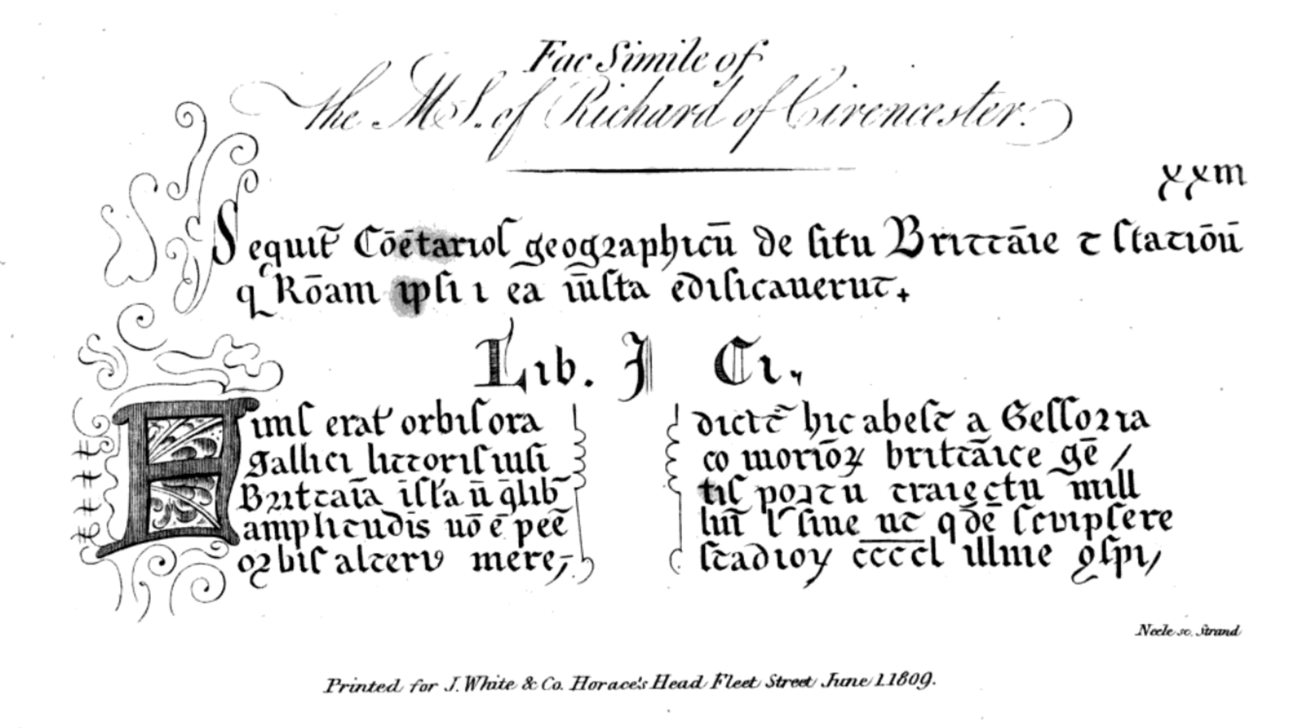 A "copy" of the first page of De Situ Britanniae, in the hand of Charles J. Bertram: Fac Simile of the MS. of Richard of Cirencester. ——— xxiii Sequit̃ Cōētariol˜ geographicū de situ Brittāie ⁊ statiōū q Rōani ipsi i ea iñsta edificauerut. Lib. I Ci. Finiſ erat orbiſ ora gallici littoriſ niſi Brittaīa īſlˀa n̄ q̄lib¯ amplitudis nō ē peẽ or biſ alterʋ mere / dicit˜ hic abeſt a Geſſoria co moriō♃ brittāice gē / tis portu traiectu mill iuī l´ ſiue ut qdē ſcʋipſere ſtadio♃ c̅c̅c̅c̅l illine ǫſpi / Sequitur Commentarioli Geographici de Situ Brittaniæ et Stationum quas Romani Ipsi in Ea Insula Ædificaverunt Liber I. Caput I. I. Finis erat orbis ora Gallici littoris, nisi Brittania insula, non qualibet amplitudine, nomen pene orbis alterius mere- [IV.] ...dicitur: hic abest à Gessoriaco Morinorum, Brittanicæ gentis portu, trajectu millium L. sive, ut quidam scripsere, stadiorum CCCCL. illinc conspici- [Here] follows a Geographical Commentary on the Situation of Britain and the Stations which the Romans Themselves Erected on This Island Book I. Chapter I. I. The boundary of the Gallic shore was the end of the world if the Brittanic isle from its extent didn't not merit the name almost of another world... [IV.] ... is called: this [Rutupiae] is distant from Gessoriacum of the Morini, the port of the British people, 50 miles or, as another writes, 450 stadia. From thence may be seen... Neele sc. Strand Printed for J. White & Co. Horace's Head Fleet Street June 1.1809.